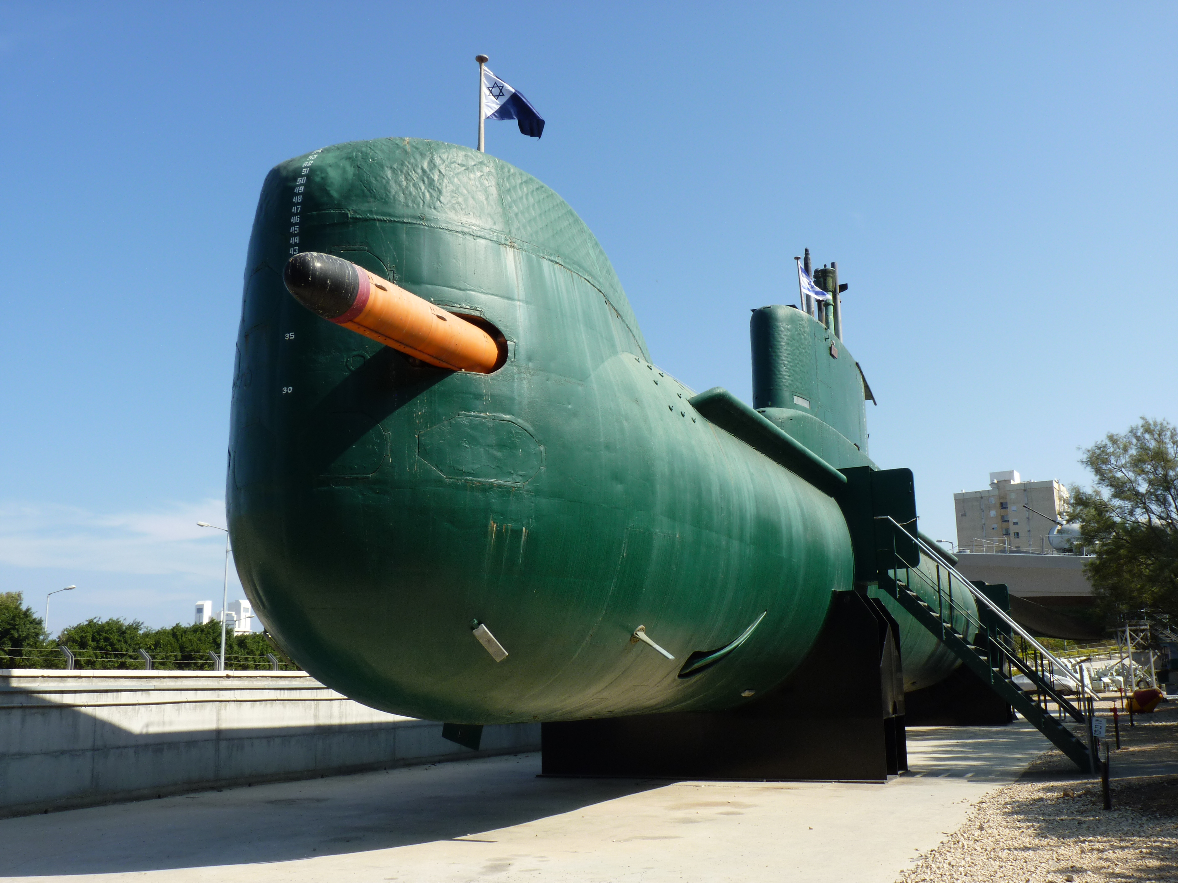 INS Gal, Haifa.